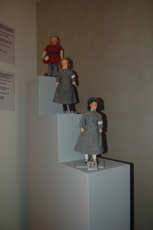 Finnish dolls from the 1940's wearing "lotta" uniforms